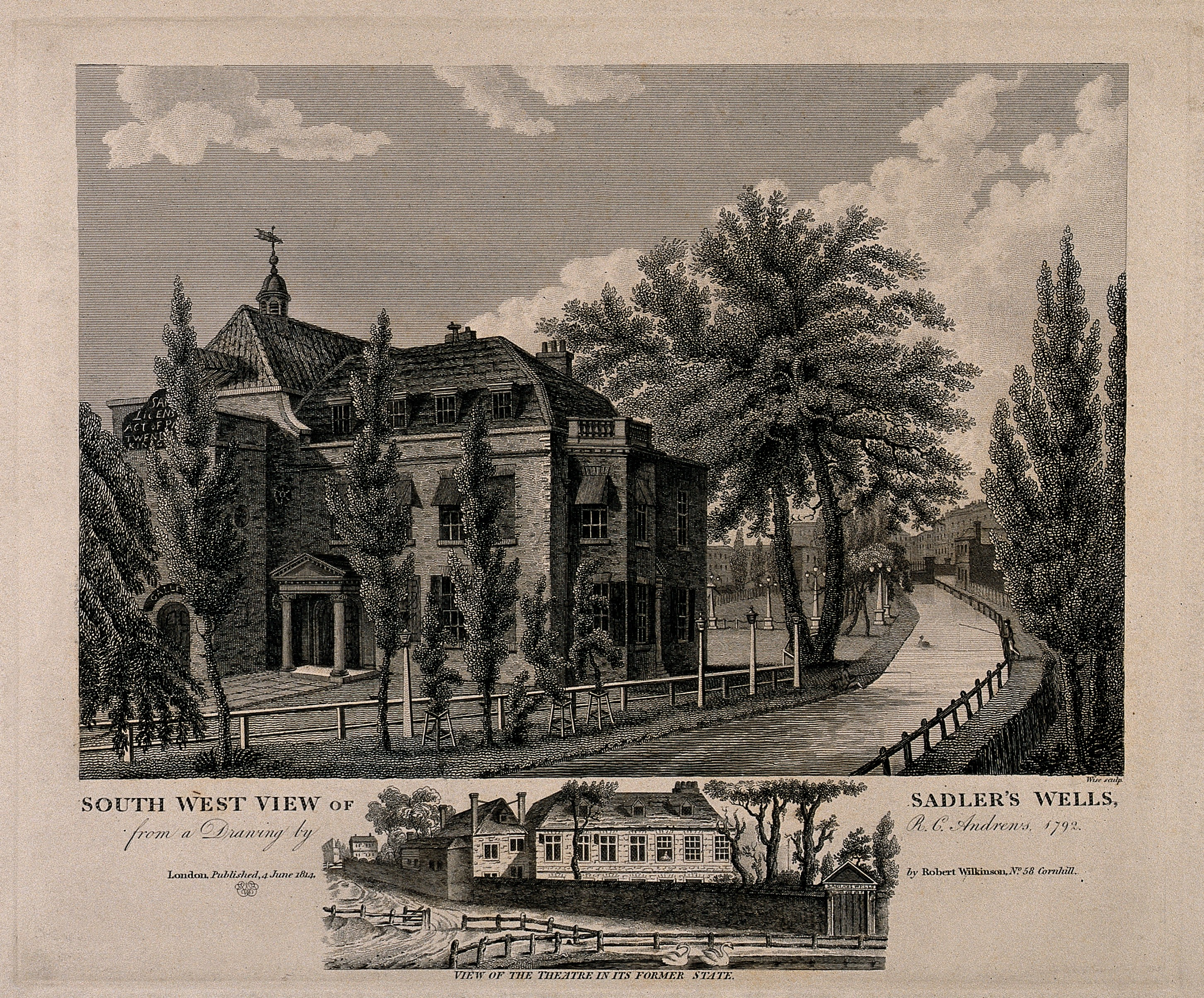 Sadler's Wells Theatre, with the New River running beside, a smaller view, below, of the older building. Engraving by W. Wise, 1814, after R. C. Andrews, 1792. Iconographic Collections Keywords: sadler's wells theatre; Sadler's Wells; r c andrews; w wise; R. C. Andrews; William Wise; icv